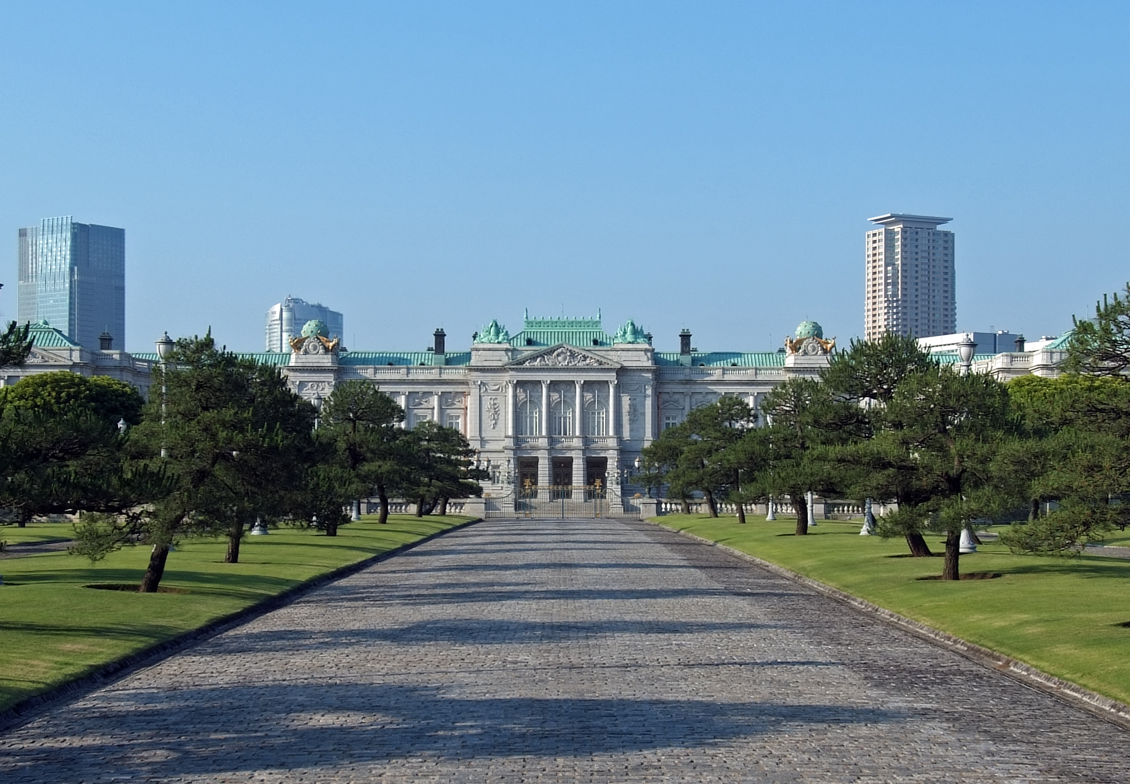 Akasaka Palace, Minato-ku Tokyo Japan, designed by Tokuma Katayama in 1909. National Treasures of Japan.